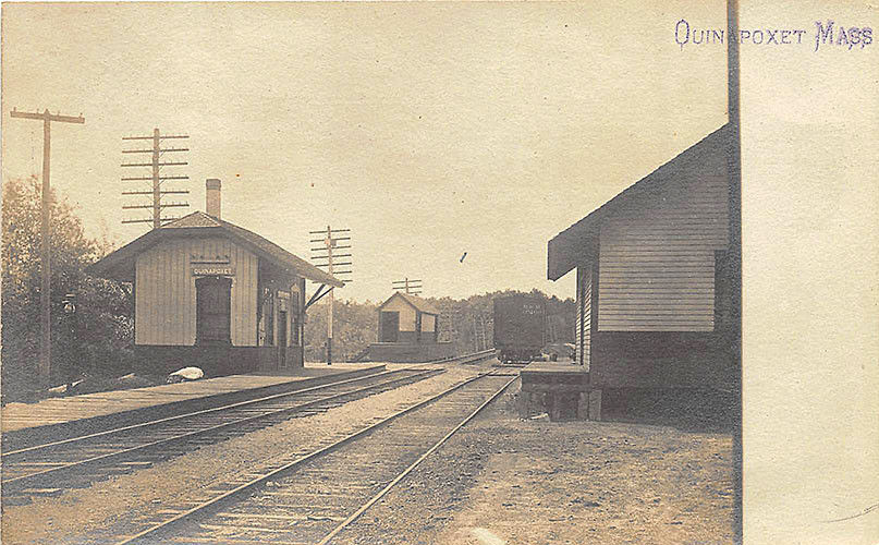 Early divided back postcard of Quinapoxet station